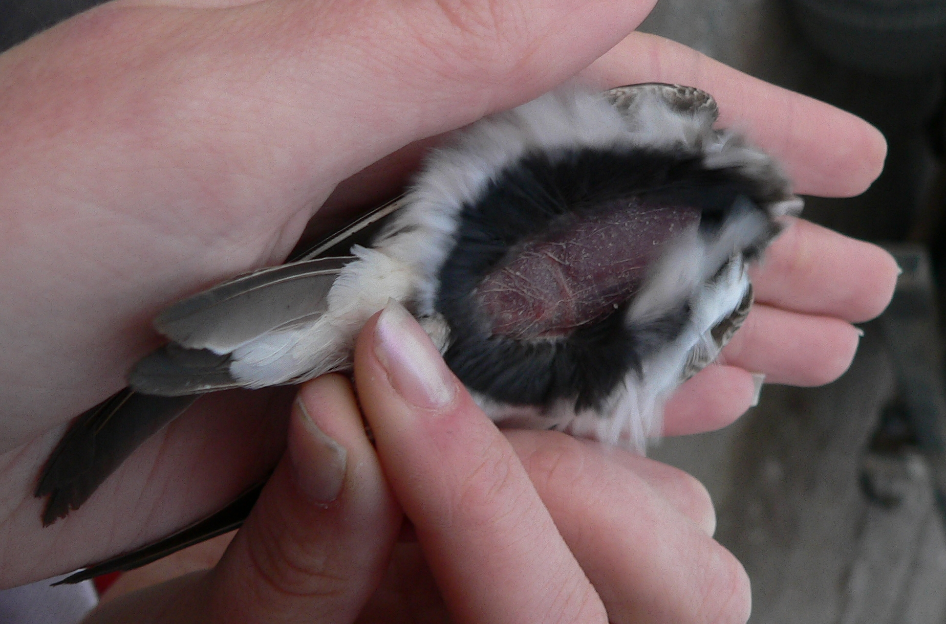 Sand martin (Riparia riparia), area incubationis (brood patch)